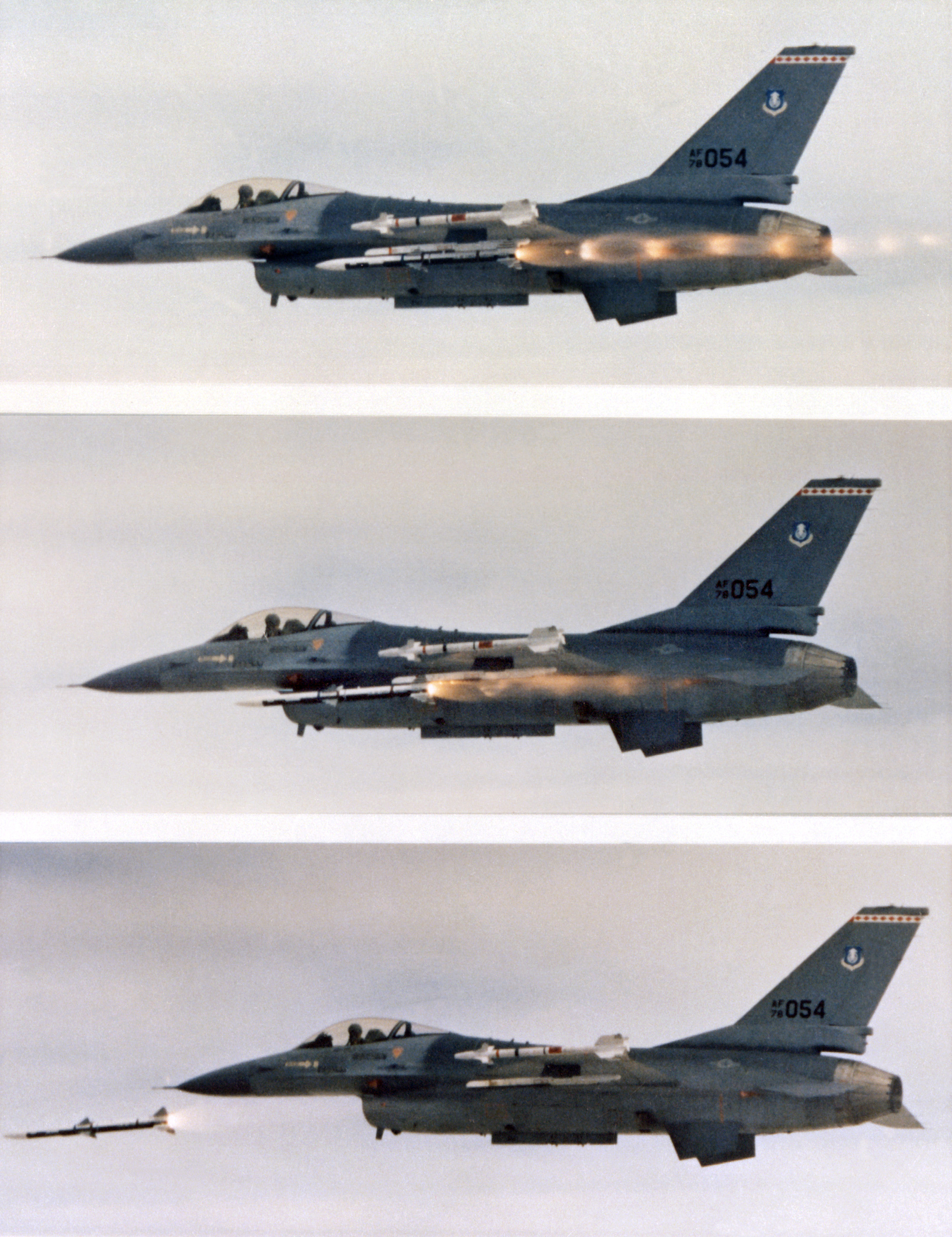 Composite photo of an F-16 Fighting Falcon aircraft in the succession of firing an advanced medium-range air-to-air missile.